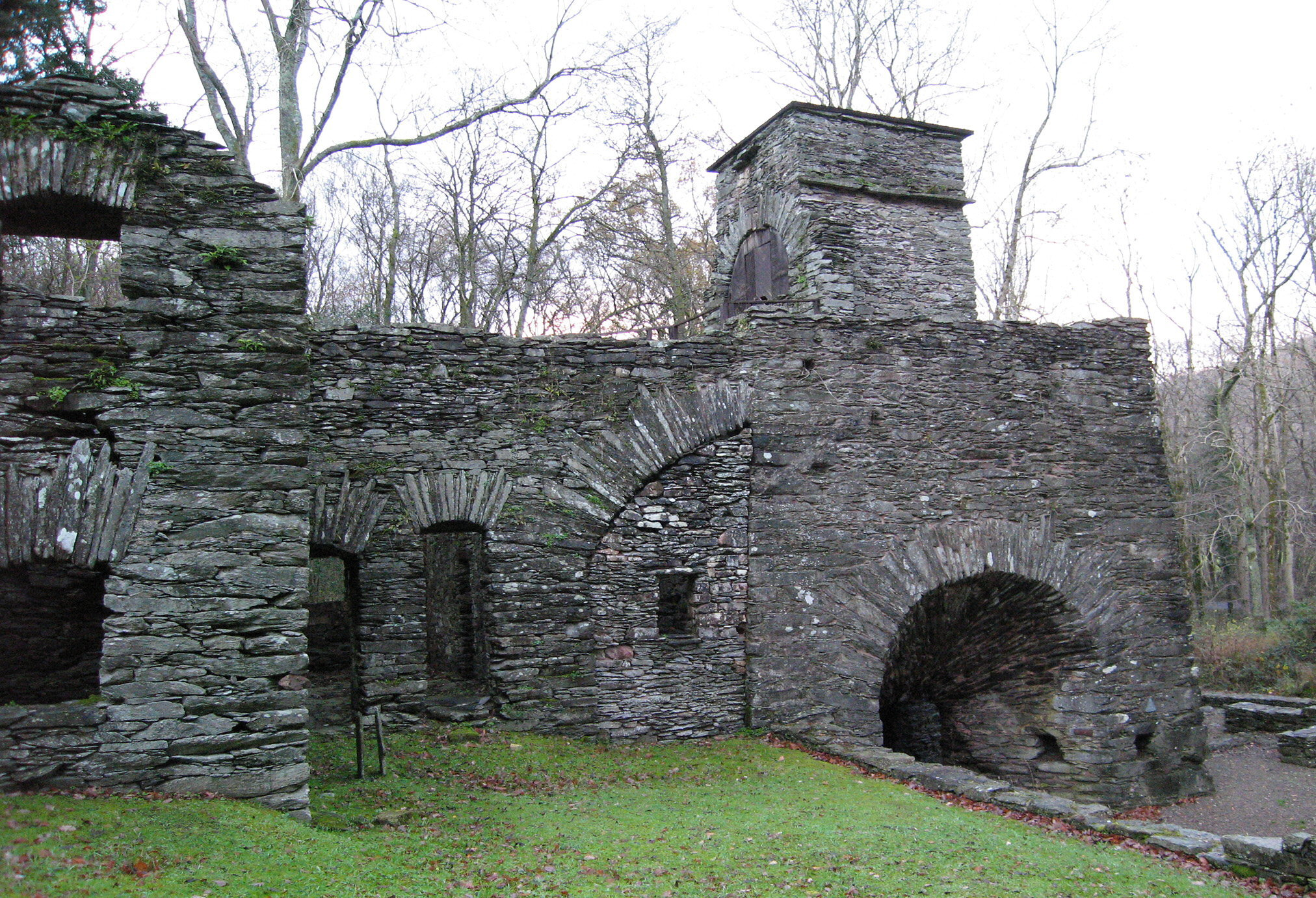 Duddon furnace is a surviving, disused, charcoal-fueled blast furnace near Broughton-in-Furness in Cumbria.